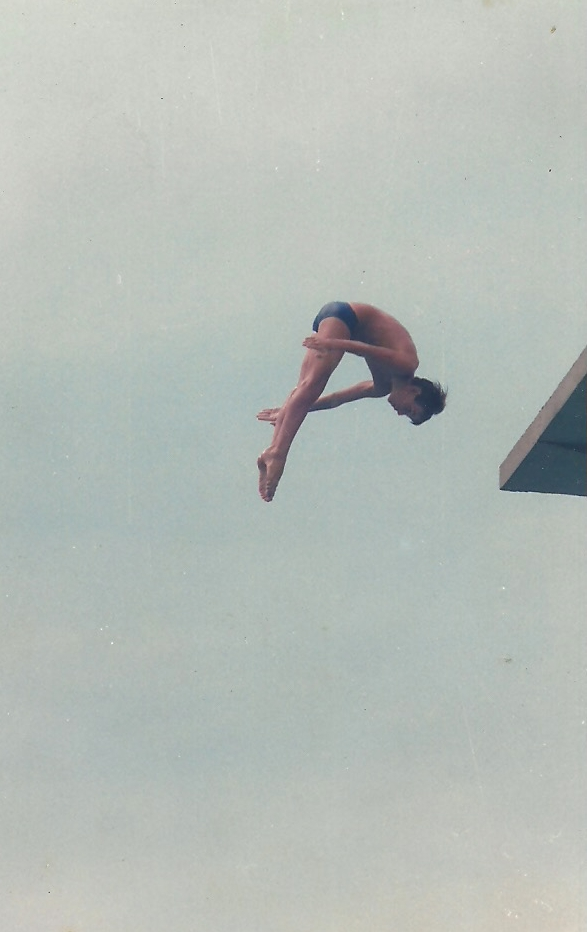 10 meter diving, outdoor platform, Maracay, Venezuela.